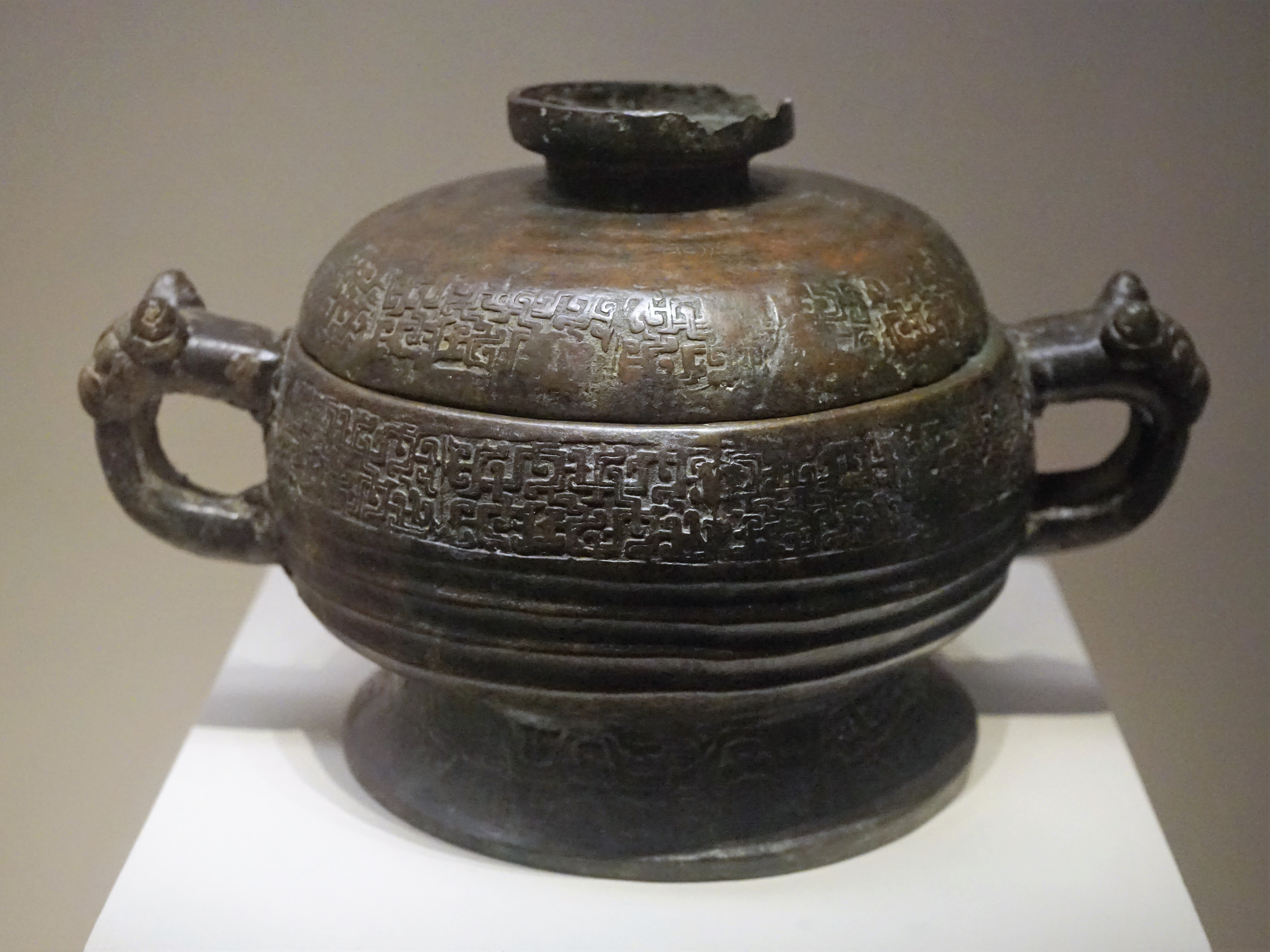 "Qin Gong" Bronze Gui (food container). Spring and Autumn period, Qin state. The inscription inside records that Qin Jing Gong was determined to continue the work of his predecessors and guard their land.